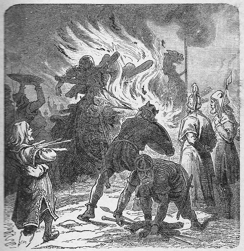 After the battle of Brávellir: Sigurd Ring ordered to burn the dead body of Harald